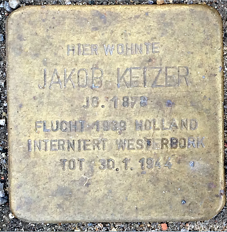 Stolperstein - Stumbling Stone in Nettetal, NRW, Germany Jakob Keizer